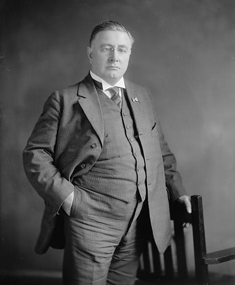 Daniel C. Oliver, Congressman from New York